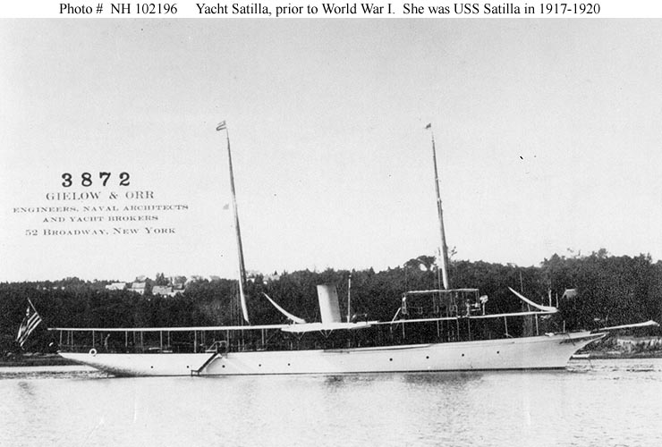 The yacht Satilla before her acquisition by the United States Navy for service as the patrol vessel